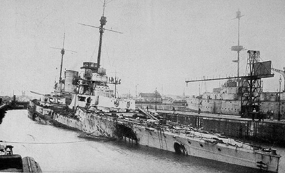 The German battlecruiser SMS Seydlitz at Wilhelmshaven, Germany, after the Battle of Jutland, 31 May–1 June 1916.